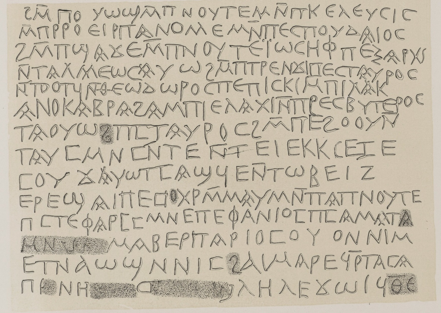 Carl Lepsius' drawing of a Coptic inscription discovered on the Dendur temple. Dating to the mid-6th century (Grzegorz Ochala 2011: "The Date of the Dendur Foundation Inscription Reconsidered" in "The Bulletin of the American Society of Papyrologists". Volume 48. pp. 217-224.), the inscription is about how the Nobatian king Eirpanome and people of his court had the temple converted into a church. According to Siegfried Richter, it is the first official Christian document from Nubia.(Siegfried Richter 2013: "The Beginnings of Christianity in Nubia" in "Christianity and Monasticism in Aswan and Nubia". pp. 47-54.)